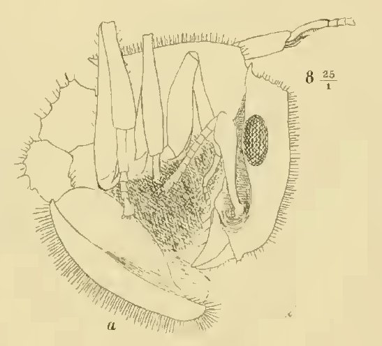 Illustrated profile view of the Cataulacus planiceps holotype worker.